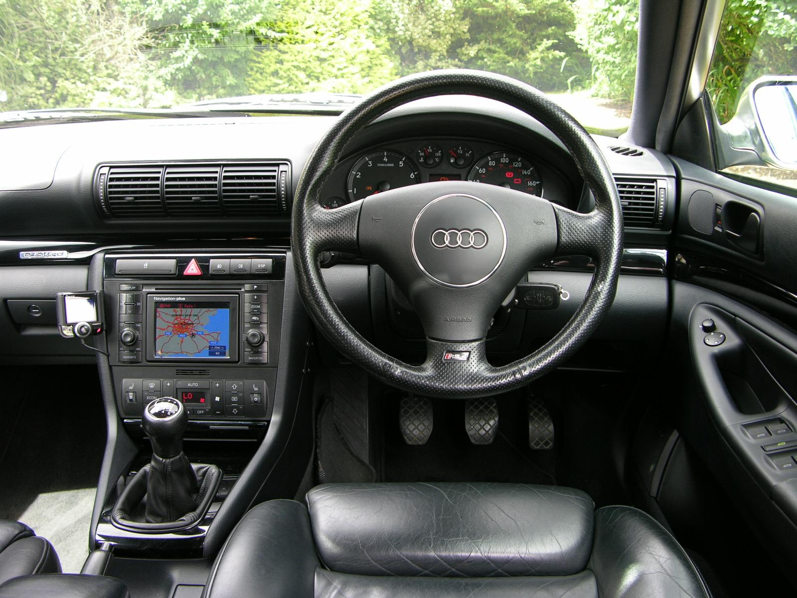 This car is for sale. Please contact us at or visit for more information.